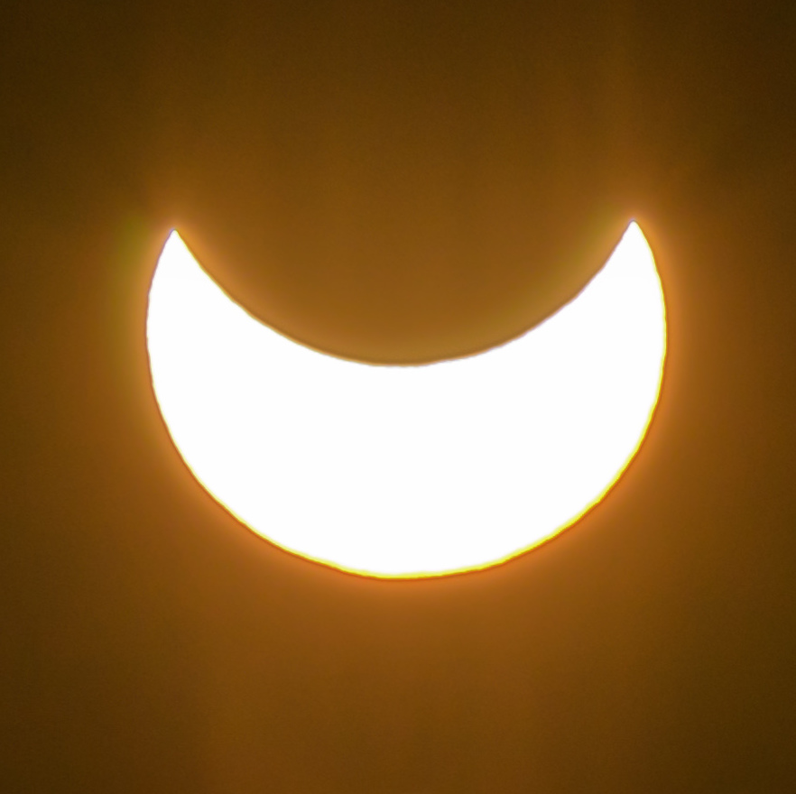 Tuesday 31st May 2011 there was a partial solar eclipse of the midnight sun at far northern latitudes. This shot was taken in Tromsø, Norway.